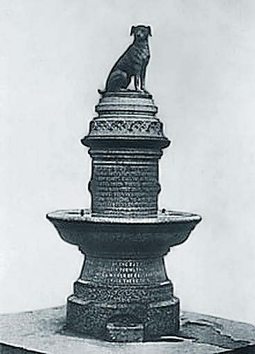 Statue of a brown dog, erected to commemorate the 233 animals used in vivisection experiments by University College, London, in 1902. The statue stood in Battersea from 1906 until 1910, when it was dismantled and presumed destroyed. See W:Brown dog affair.